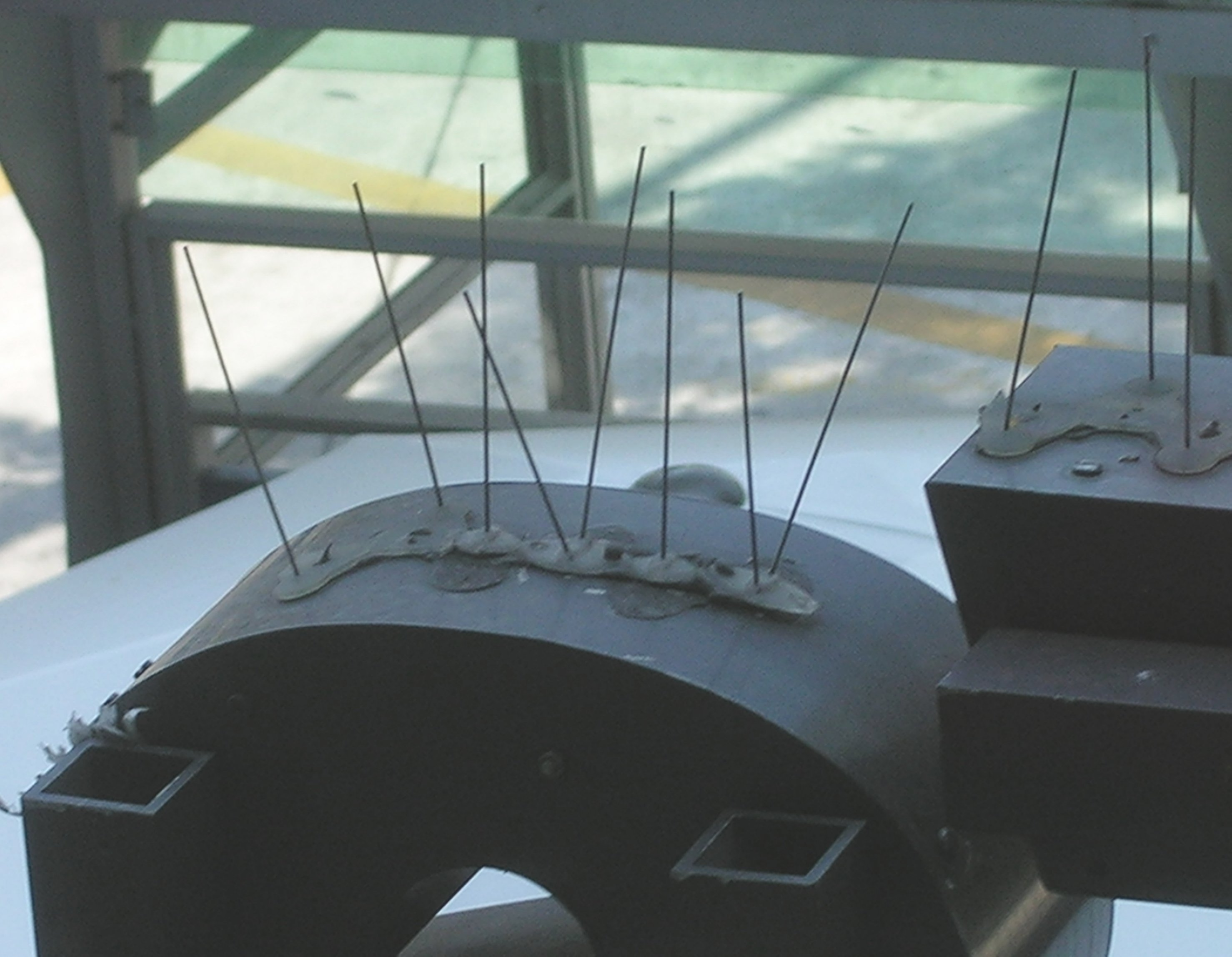 Spikes against the rock doves, prevents landing (Zurich, Switzerland)